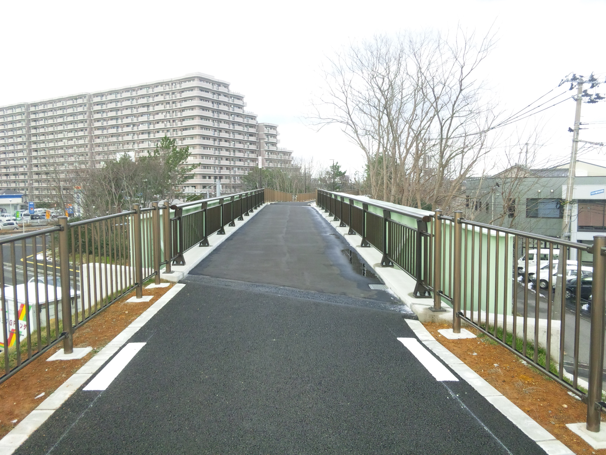 The remains of the former Higashiaoyama Station on the Niigata Kotsu Railway which closed on April 5, 1999. The trackbed has been converted into a cycle path.